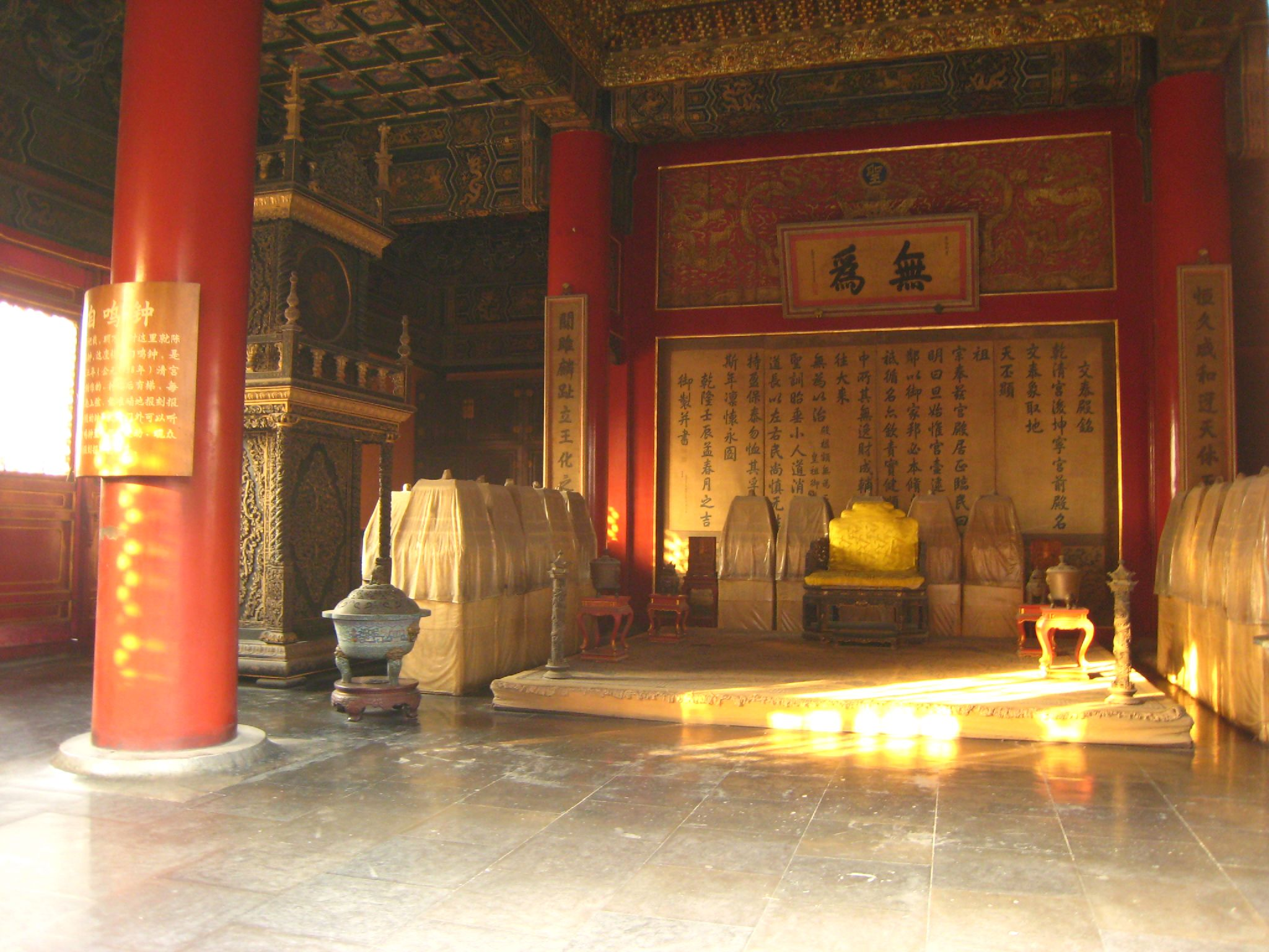 The Forbidden City in Beijing